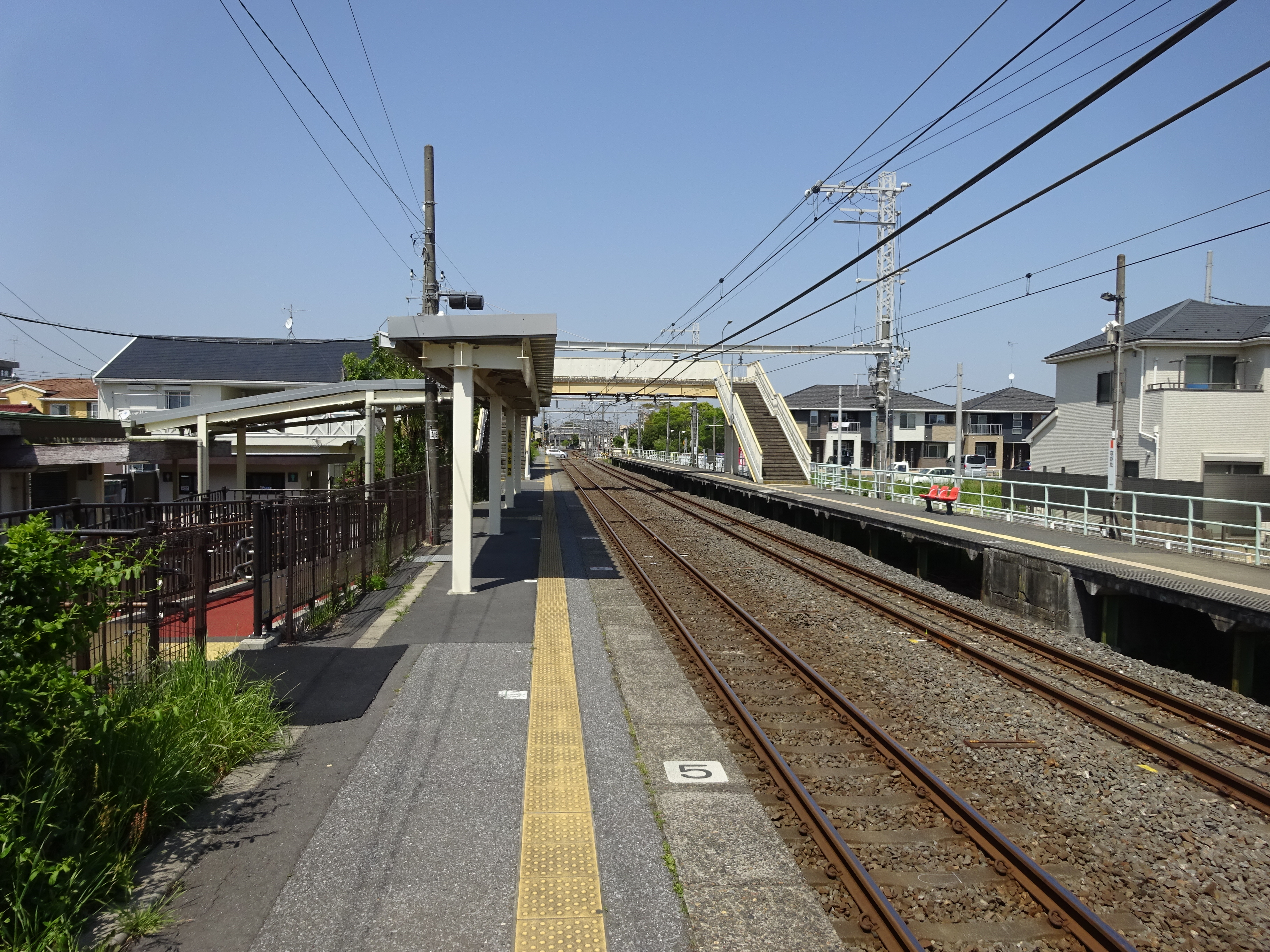 Platforms of Nagata Station (Chiba)